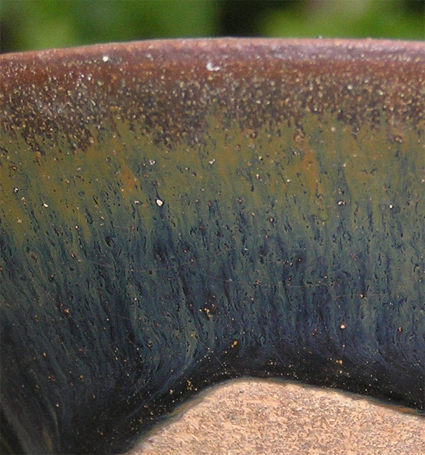 Hare´s fur Temmoku China